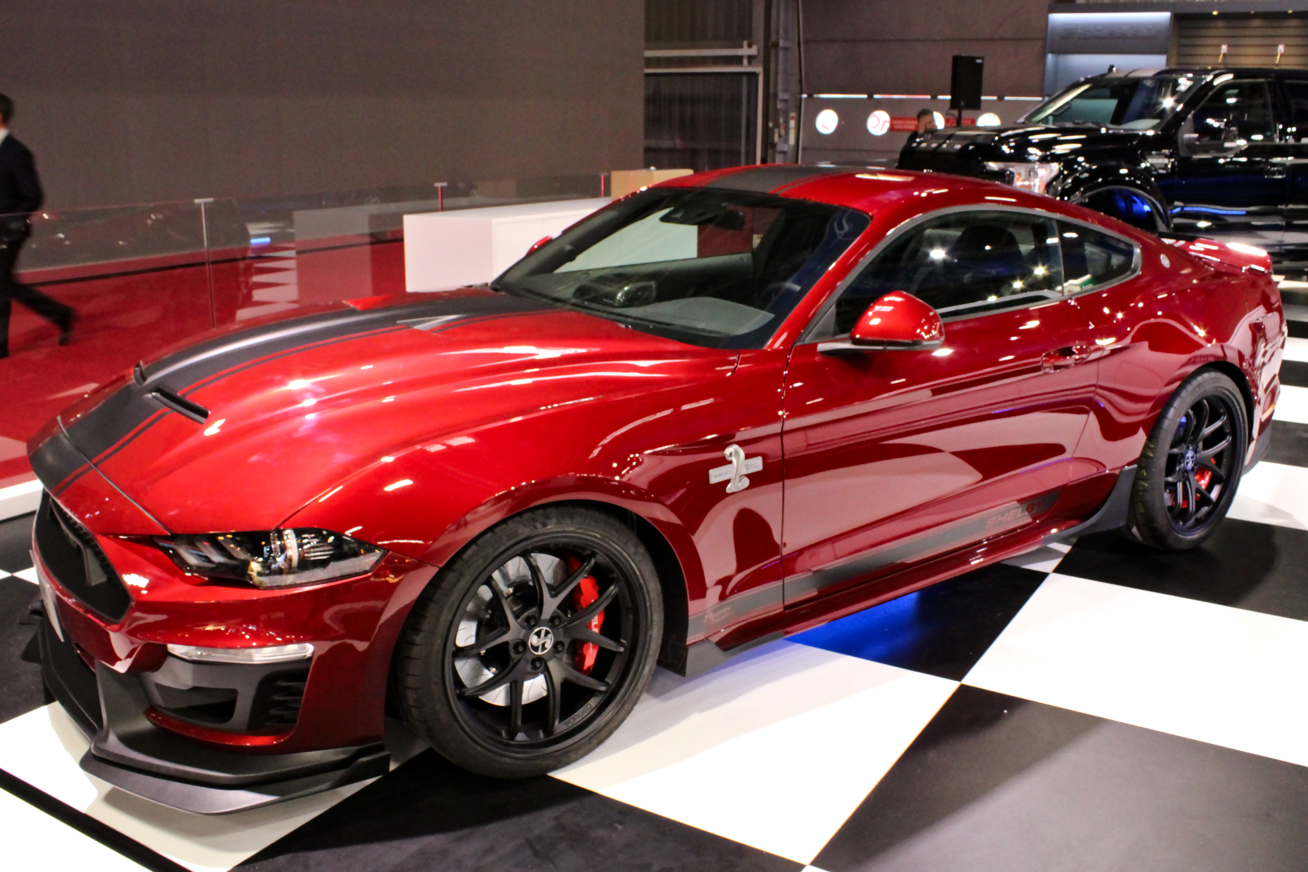 Shelby Super Snake at Paris Motor Show 2018